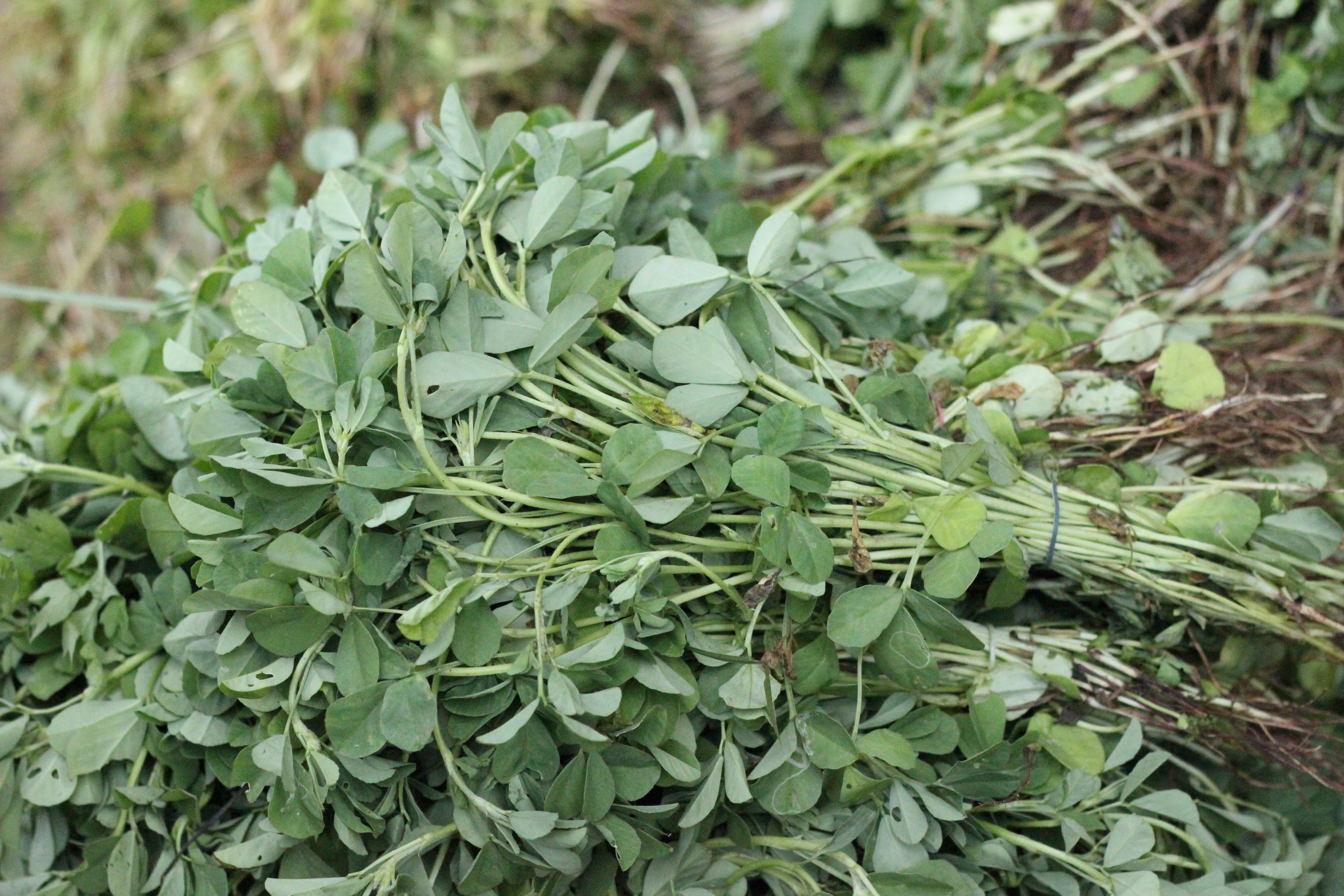 Fenugreek leafs